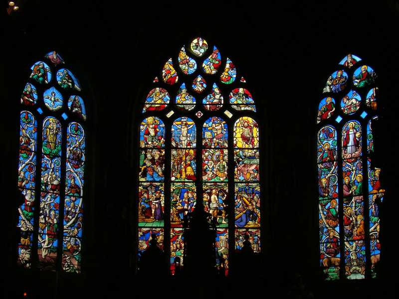 Saint-Germain Church, Pleyben, Finistère, Bretagne, France. Stained-glass windows of the choir representing: on the left, the Tree of Jesse (1879); in the center, the Passion (16th Century); on the right, the Tree of the Church (1879).